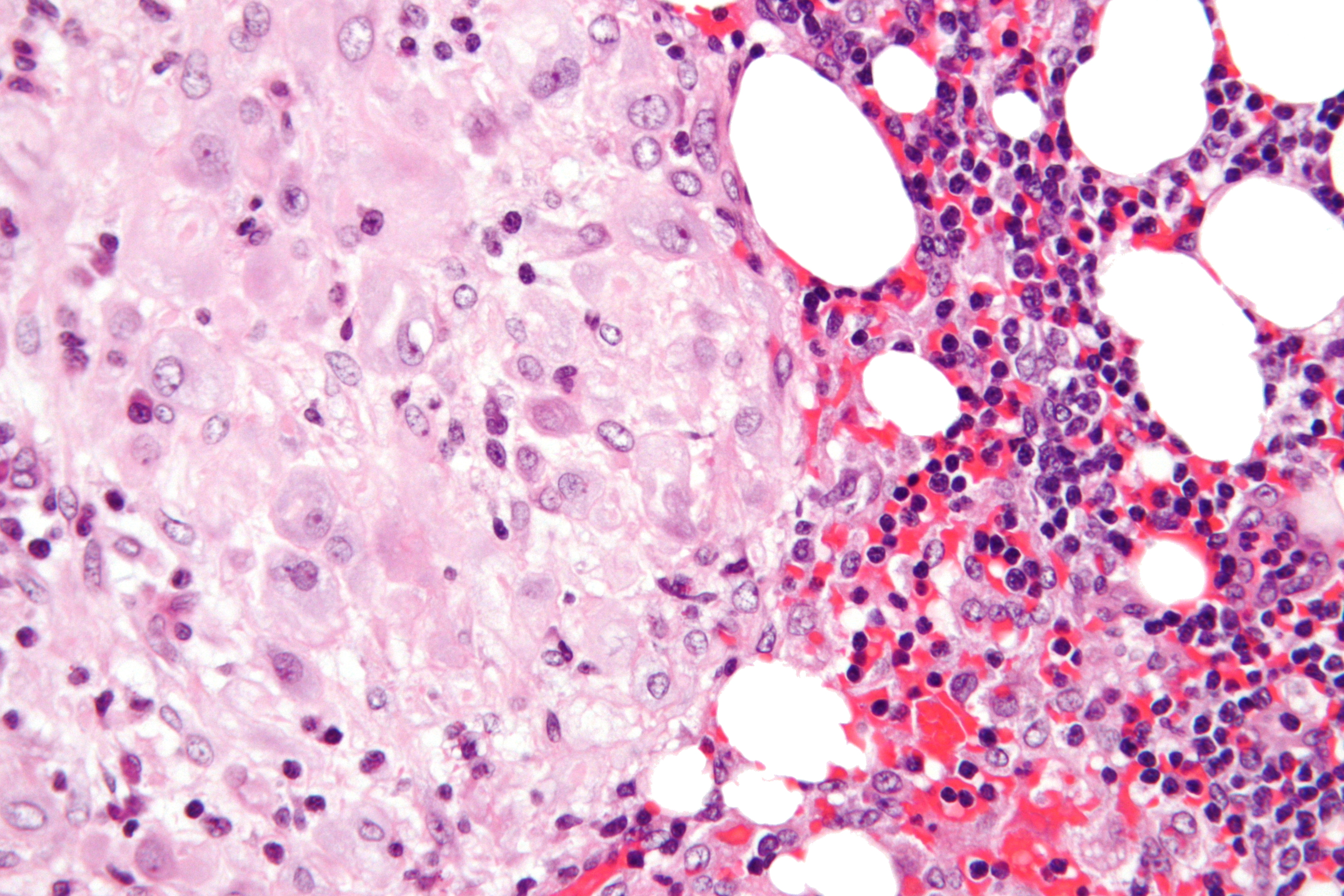 Very high magnification micrograph of ectopic decidua in a lymph node. H&E stain. Decidua in a lymph node is a known diagnostic pitfall for metatstatic carcinoma.[1] Morphologic characteristics of decidua: Nucleus - central location. Eosinophilic cytoplasm. Well-defined cellular borders. Related images Low mag. Intermed. mag. High mag. Very high mag. References ↑ (May 2005). "Ectopic decidua of pelvic lymph nodes: a potential diagnostic pitfall.". Arch Pathol Lab Med 129 (5): e117-20.